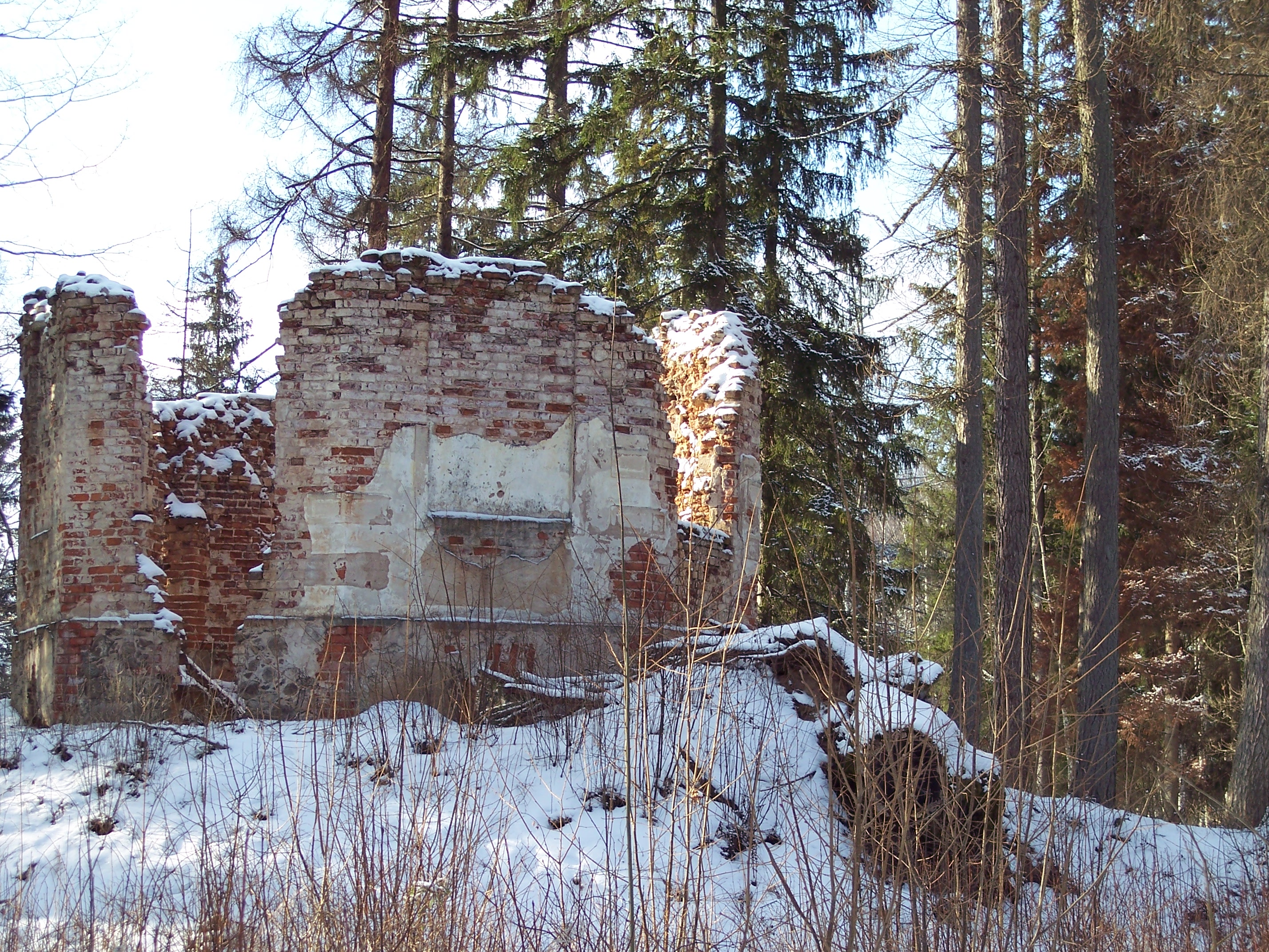 Ruins of small hunting lodge on Rozula Estate